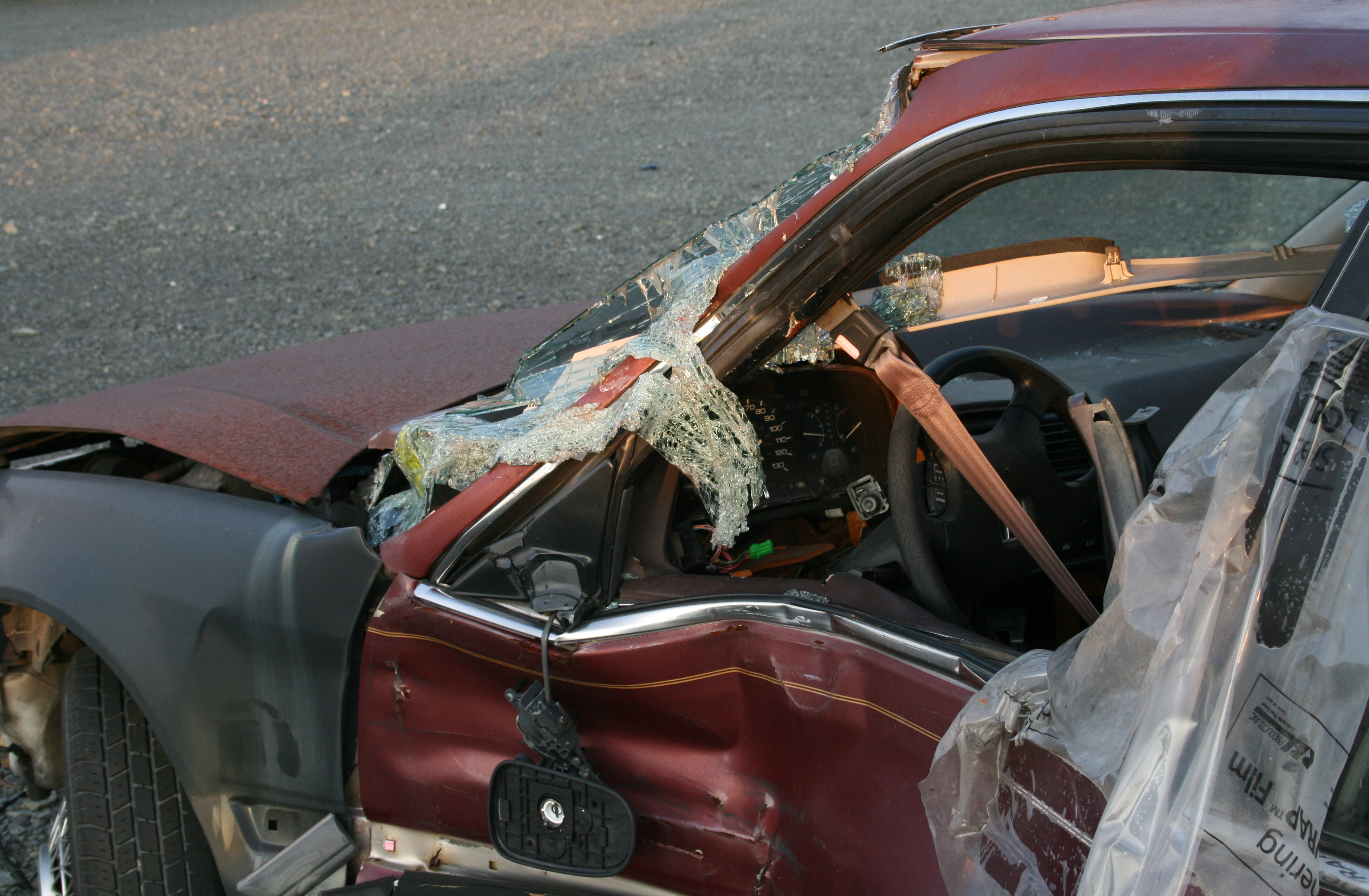 A wrecked car in Durham, North Carolina.